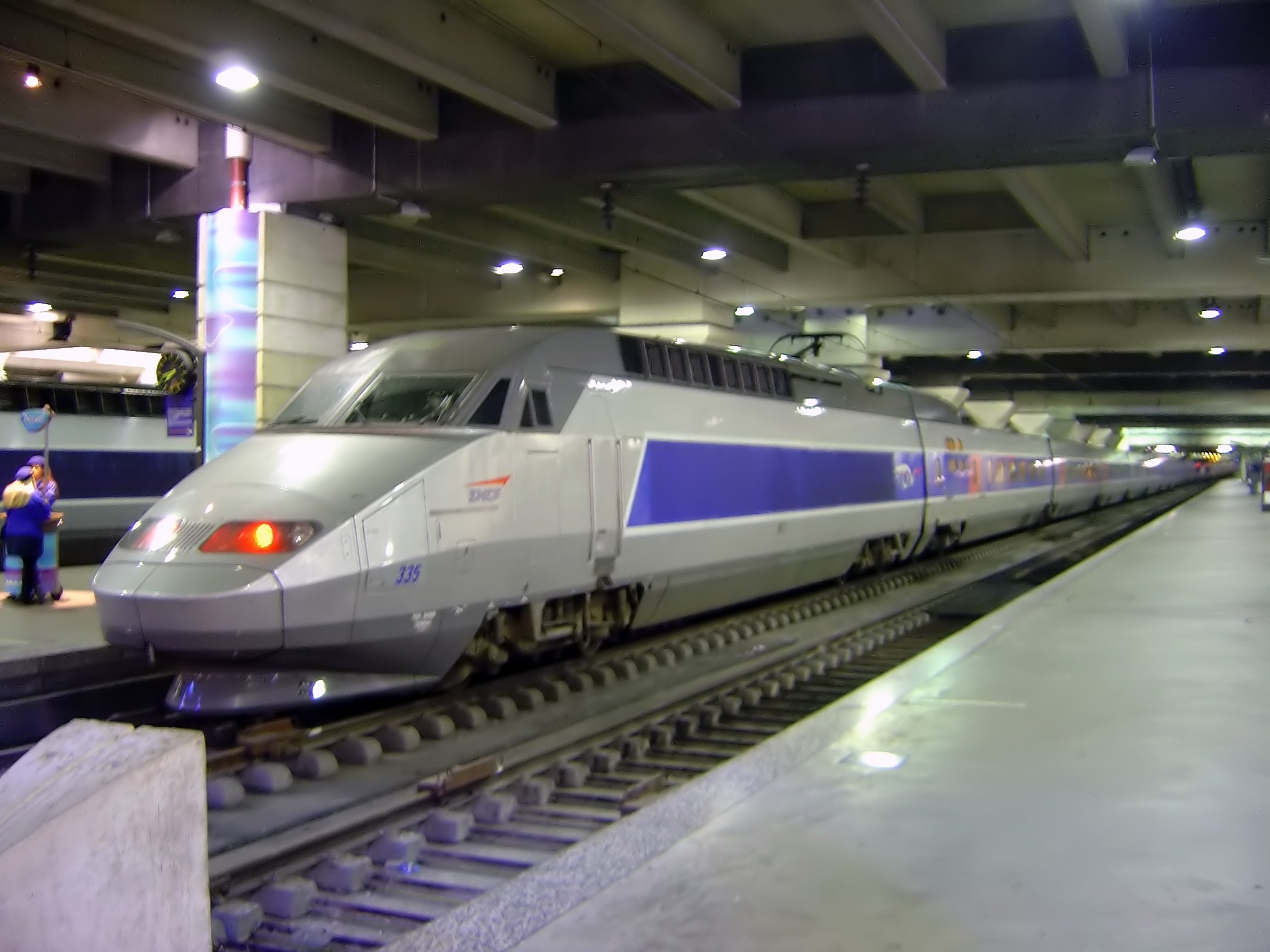 A TGV train inside Gare Montparnasse in Paris